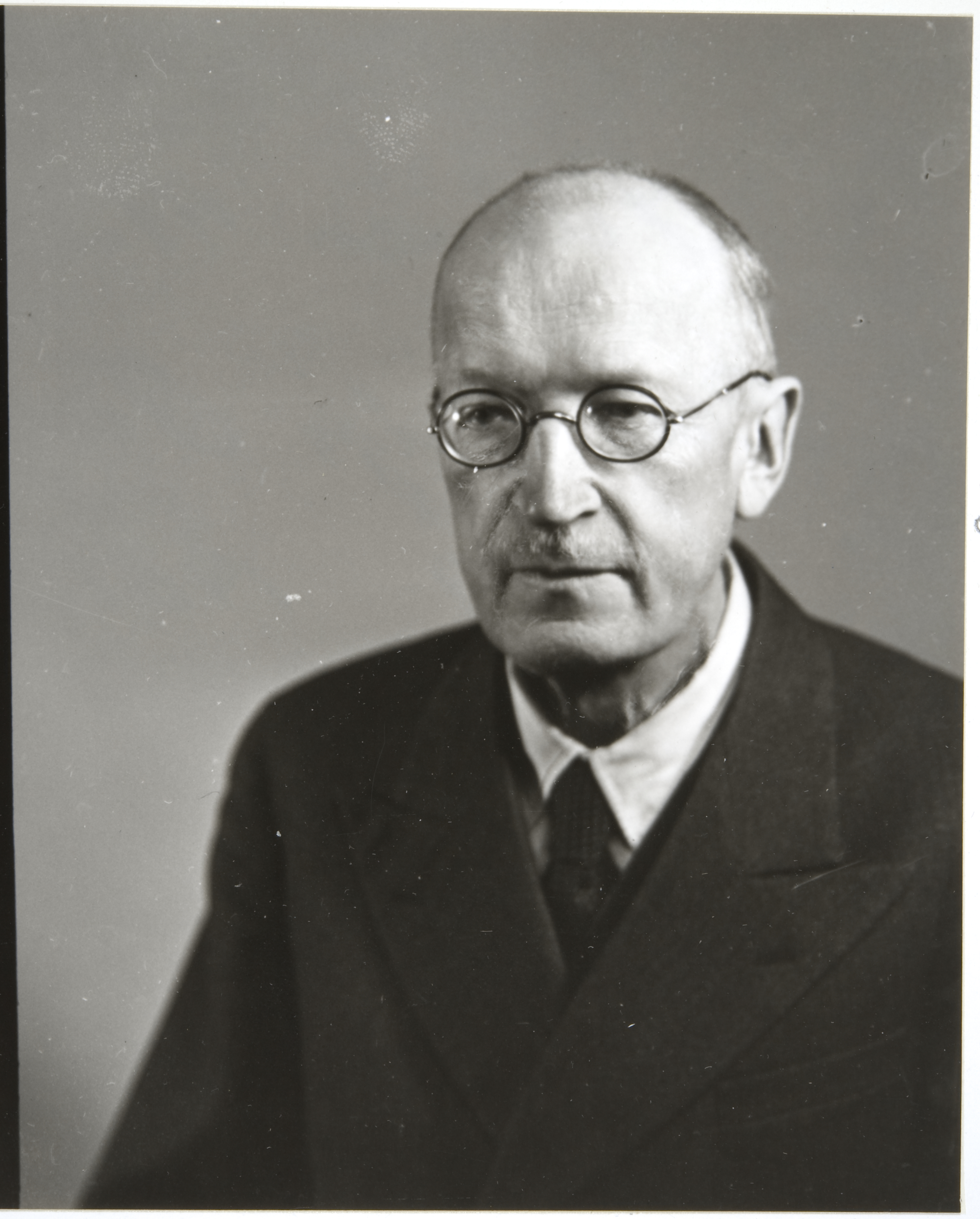 Photograph of the Finnish literary historian Viljo Tarkiainen (1879–1951).